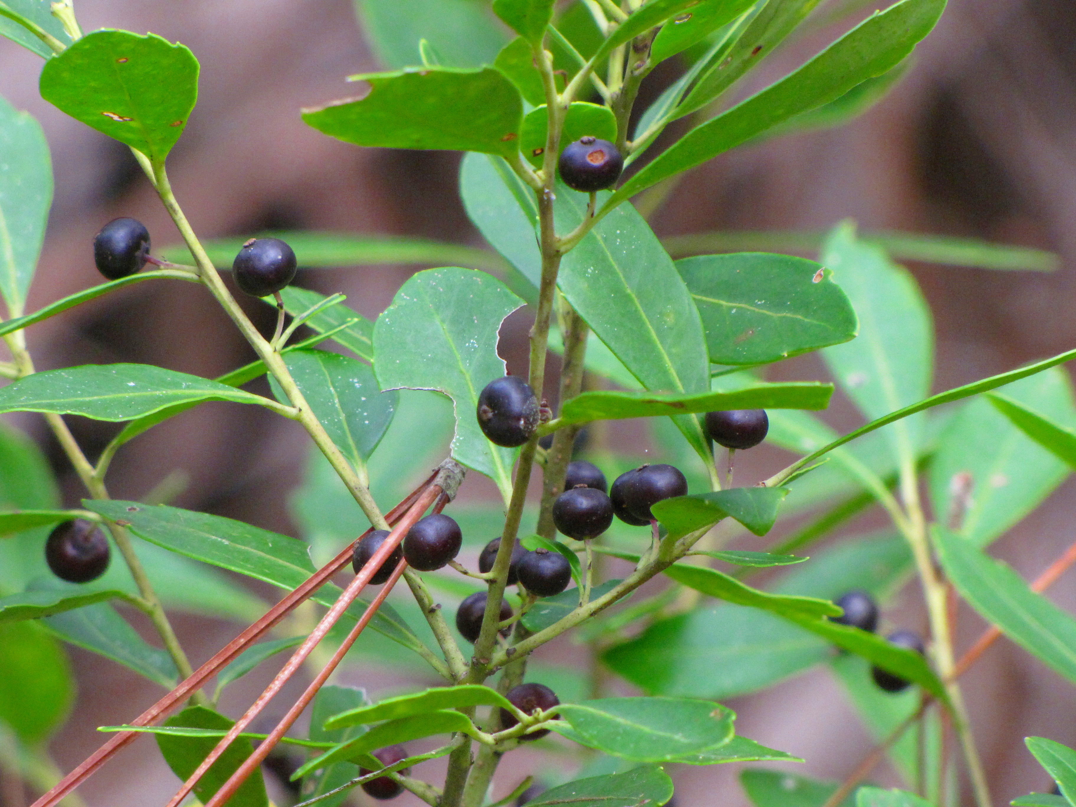 Vaccinium arboreum with fruit, Friendship Trail, Brooker Creek Preserve, Pinellas County, Florida